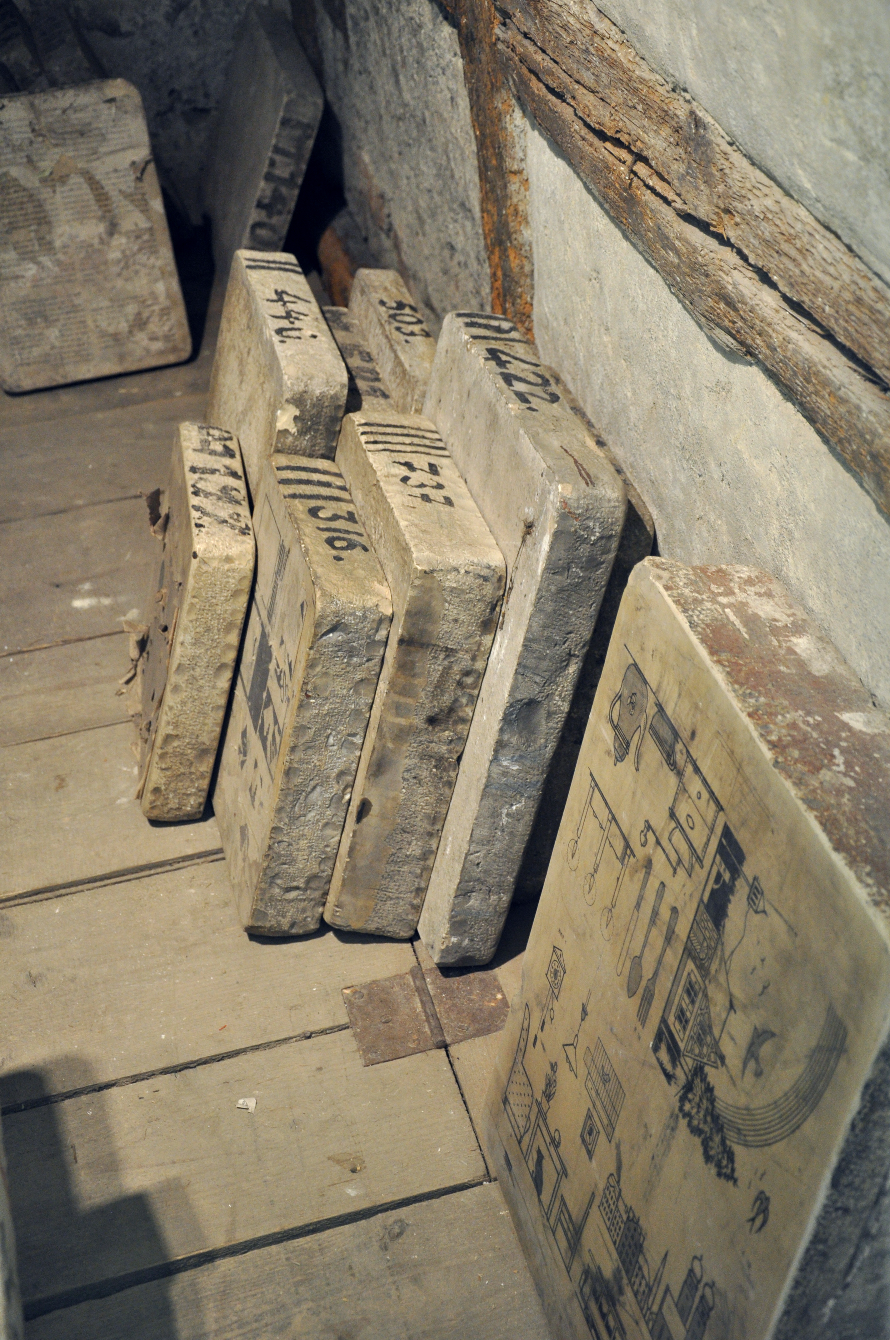 Ravensburg, Museum Ravensburger Erdgeschoß, Lithographiewerkstatt Museum Ravensburger LocationRavensburg, GermanyCoordinates47° 46′ 49.08″ N, 9° 36′ 55.95″ E Established2010 Web page Authority control : Q18760637 institution QS:P195,Q18760637